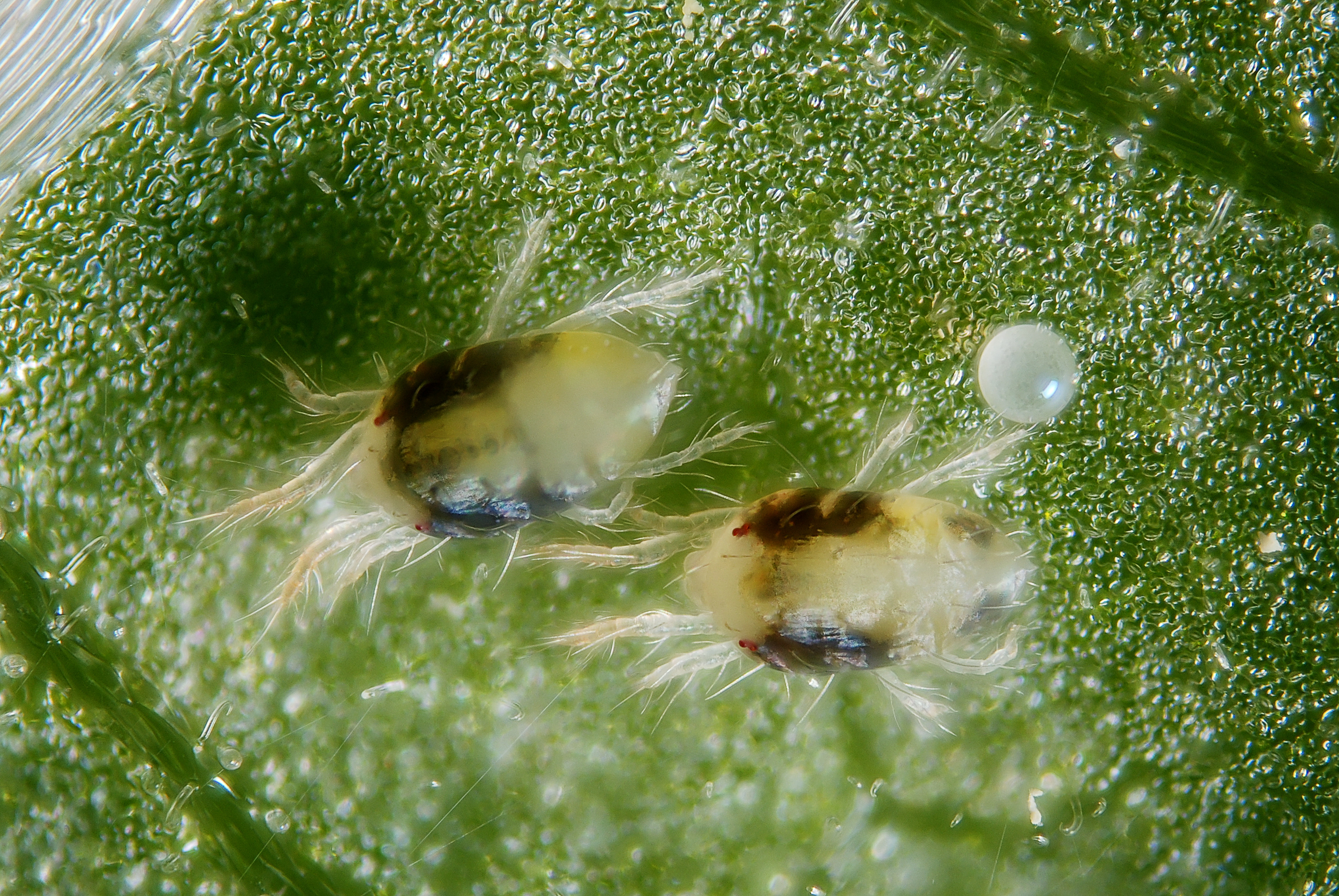 Two females with an egg of the green form of the spider mite Tetranychus urticae. Scale : mite body length ~0.5 mm Technical settings : - focus stack of 11 images - microscope objective (Nikon achromatic 10x 160/0.25) on bellow (70 mm extention)